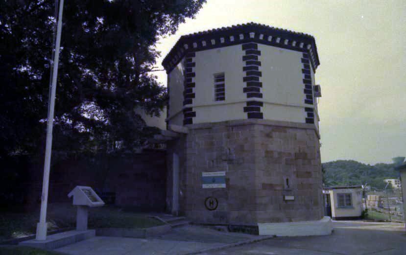 watchtower on stonecutter island